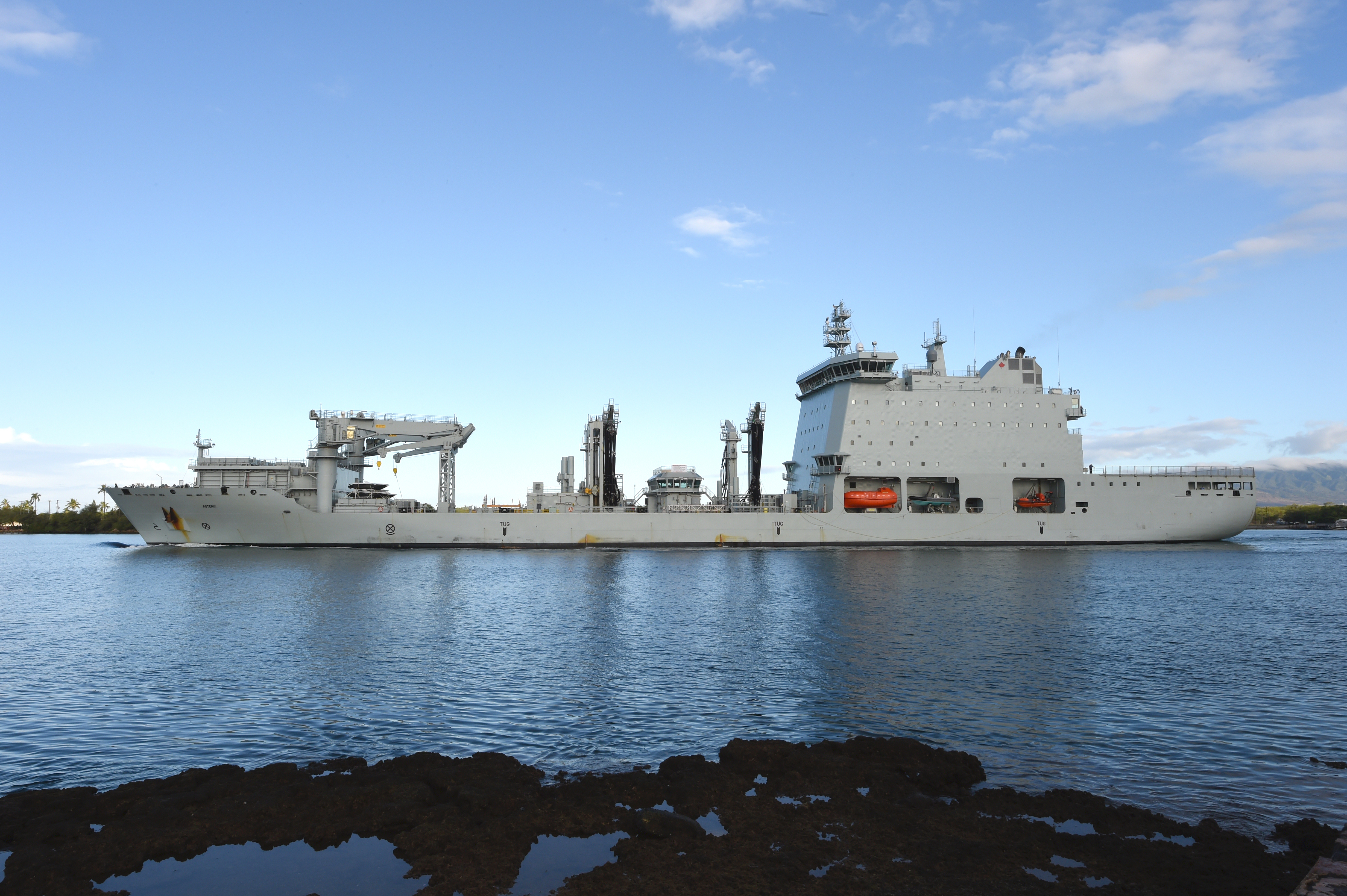 180709-N-OS584-0023 PEARL HARBOR (July 9, 2018) The Royal Canadian Navy supply ship MV Asterix departs Joint Base Pearl Harbor-Hickam, Hawaii, during Rim of the Pacific (RIMPAC) exercise 2018. Twenty-five nations, 46 ships, five submarines, approximately 200 aircraft and 25,000 personnel are participating in RIMPAC from June 27 to Aug. 2 in and around the Hawaiian Islands and Southern California. RIMPAC is the World's largest international maritime exercise, providing a unique training opportunity while fostering and sustaining cooperative relationships among participants critical to ensuring the safety of sea lanes and security of the World's oceans. (U.S. Navy photo by Mass Communication Specialist 1st Class Jimmie Crockett/Released)